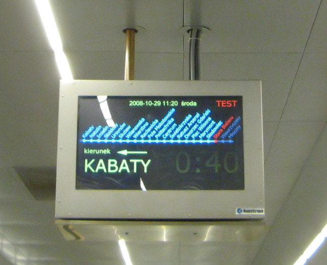 Electronic noticeboard on the station of Warsaw Metro